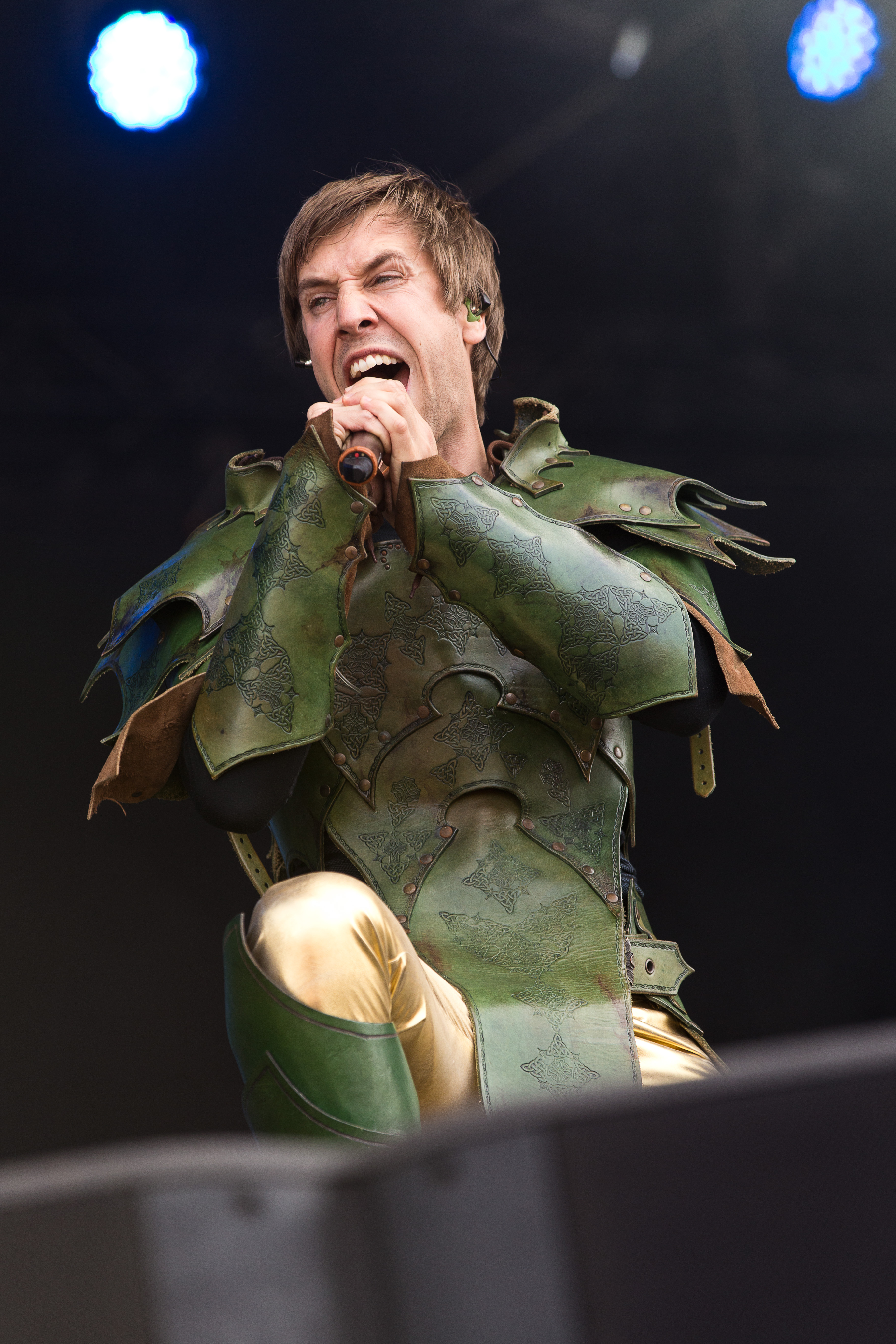 The Scottish-Swiss power metal band Gloryhammer at the Rockharz Open Air 2016 in Ballenstedt/Germany.